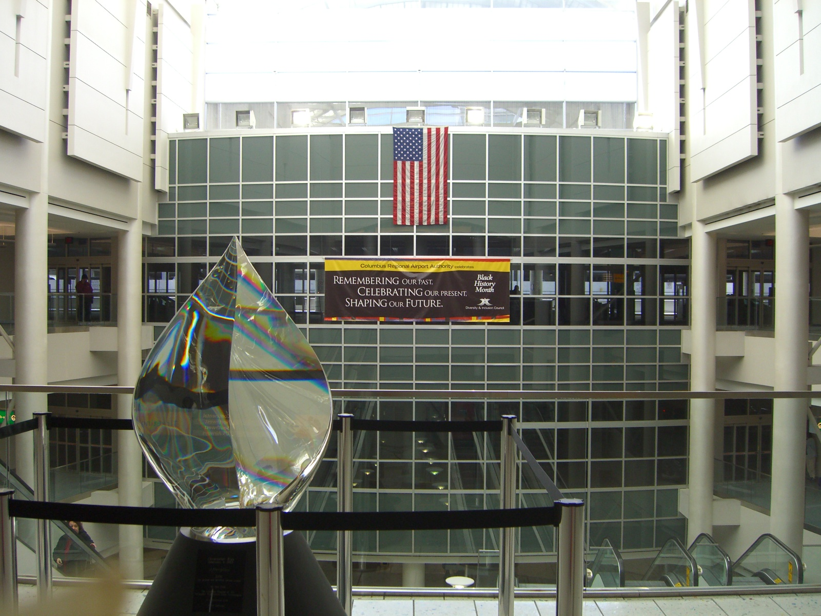 Port Columbus International Airport.